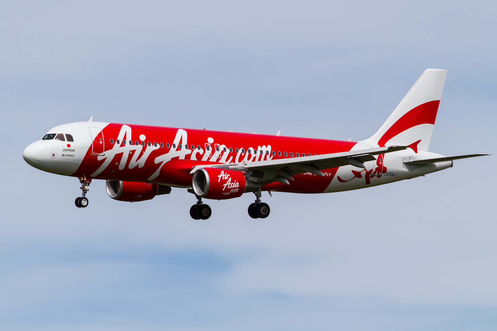 Aircraft: Airbus A320-216 JA01AJ(cn: 5153) Airline: AirAsia Japan - WAJ Headquarters: Narita-shi, Chiba-ken, Japan 16/07/2012 Tokyo-Narita Airport(NRT/RJAA), Japan